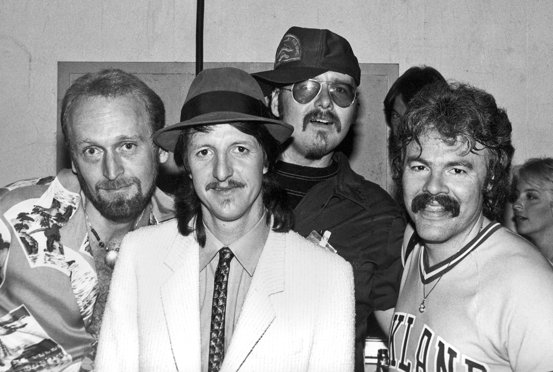 Doobie Brothers 9/11/82; Backstage at the Greek Theater in Berkeley, California. Left to right: Michael Hossack, Patrick Simmons, John Hartman, Tom Johnston.